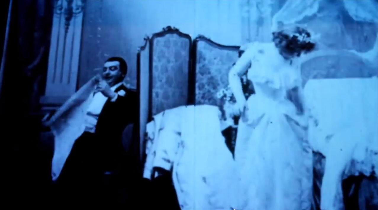 Screenshot from 1:02 in French film Le coucher de la mariée